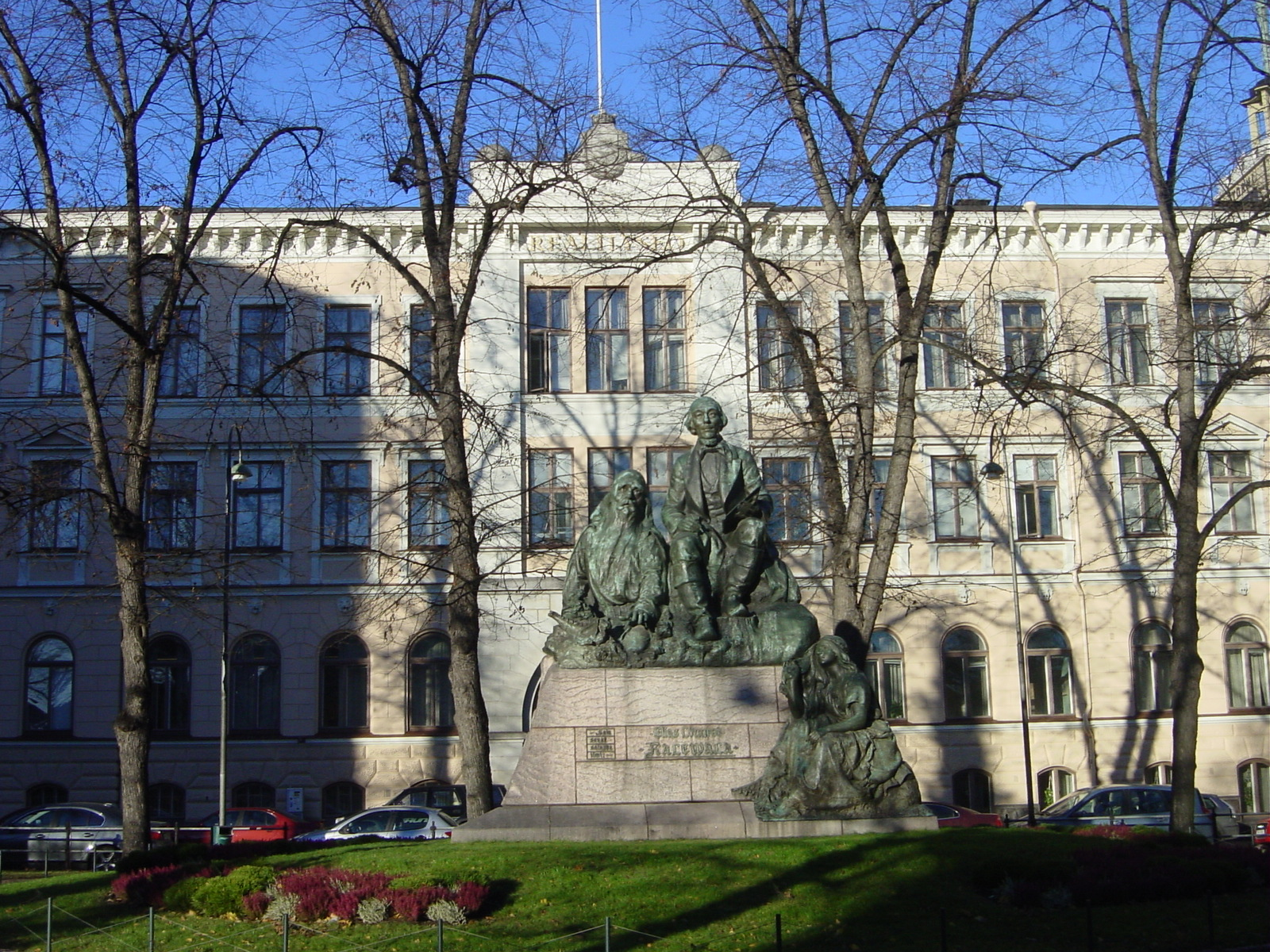 Fasade of Ressun lukio